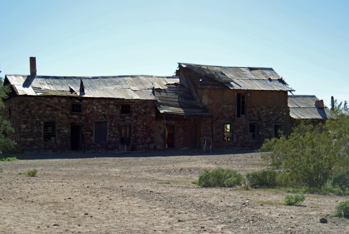 The abandoned Vulture Gold Mine in Arizona